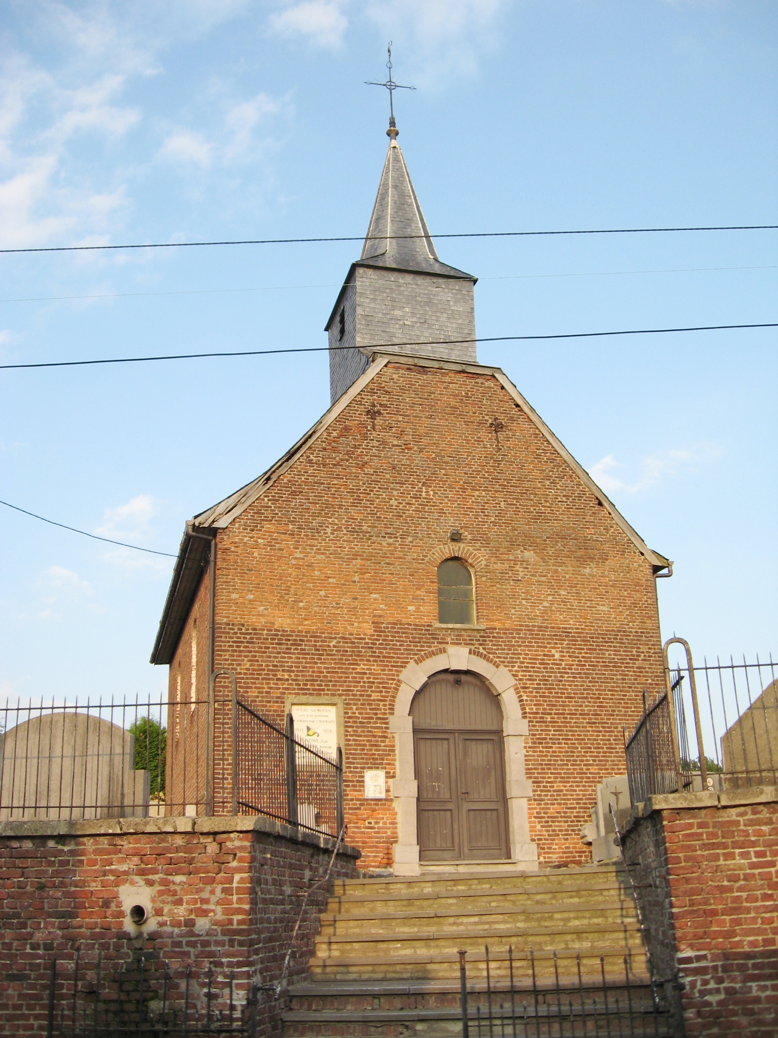 Chapel of the Holy Cross in Muizen, Gingelom, Limburg, Belgium